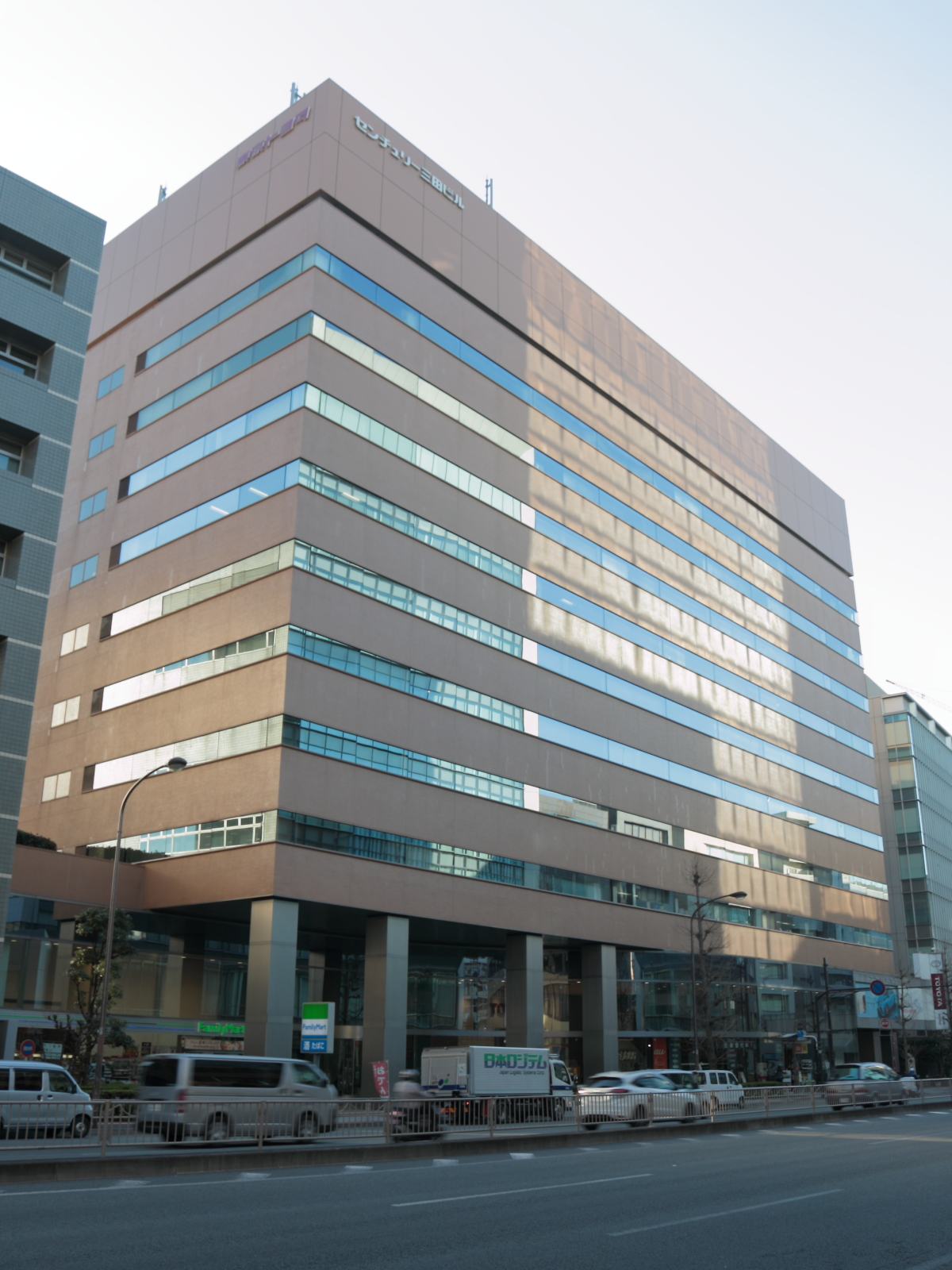 Century Mita Building. Minato, Tokyo.